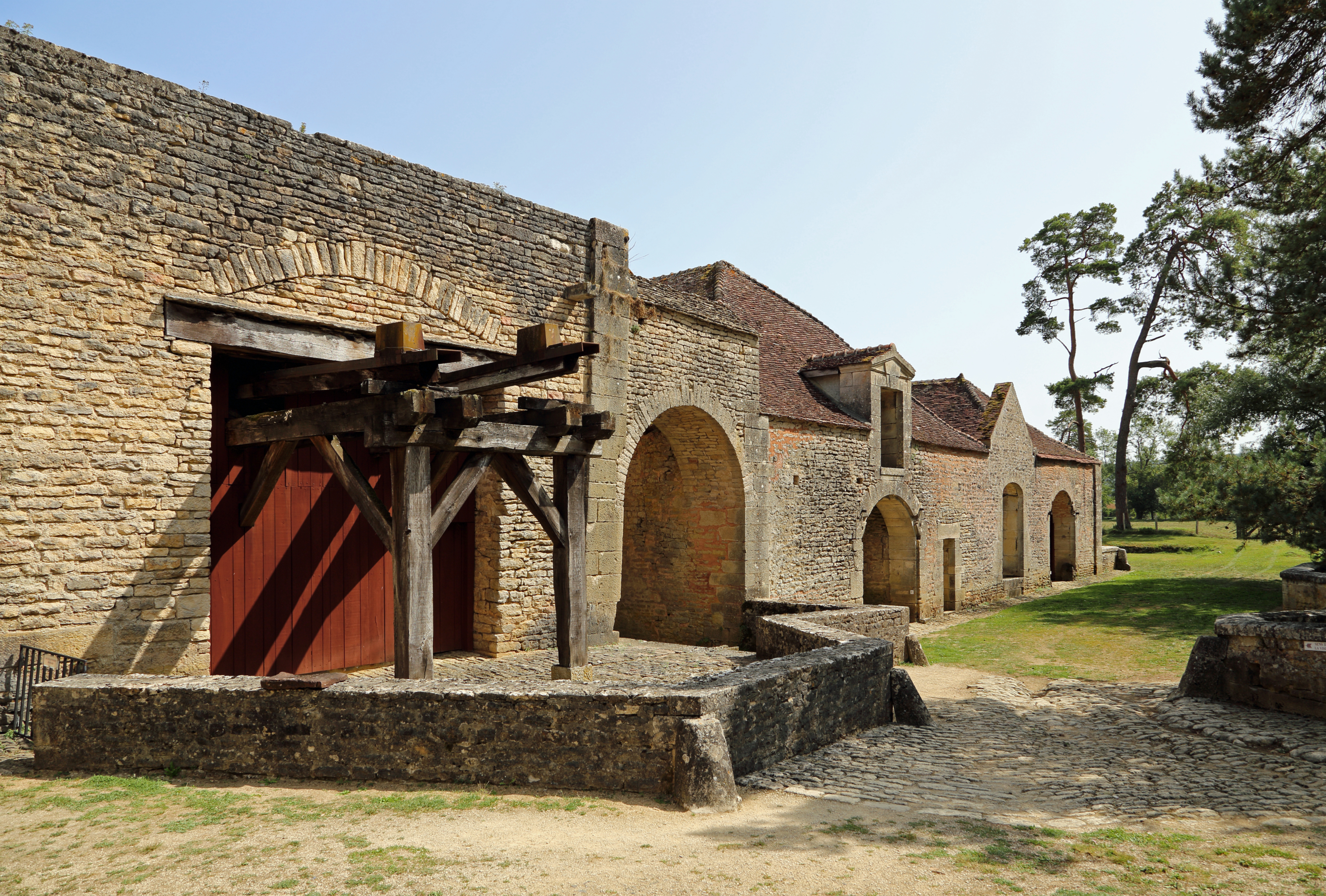 Buffon (Côte-d'Or department, France): the Forges de Buffon, also called La Grande Forge (the Big Forge)